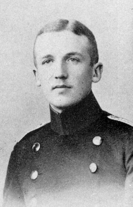 Portrait of the later German Chancellor Kurt von Schleicher in 1900 at the age of 17.